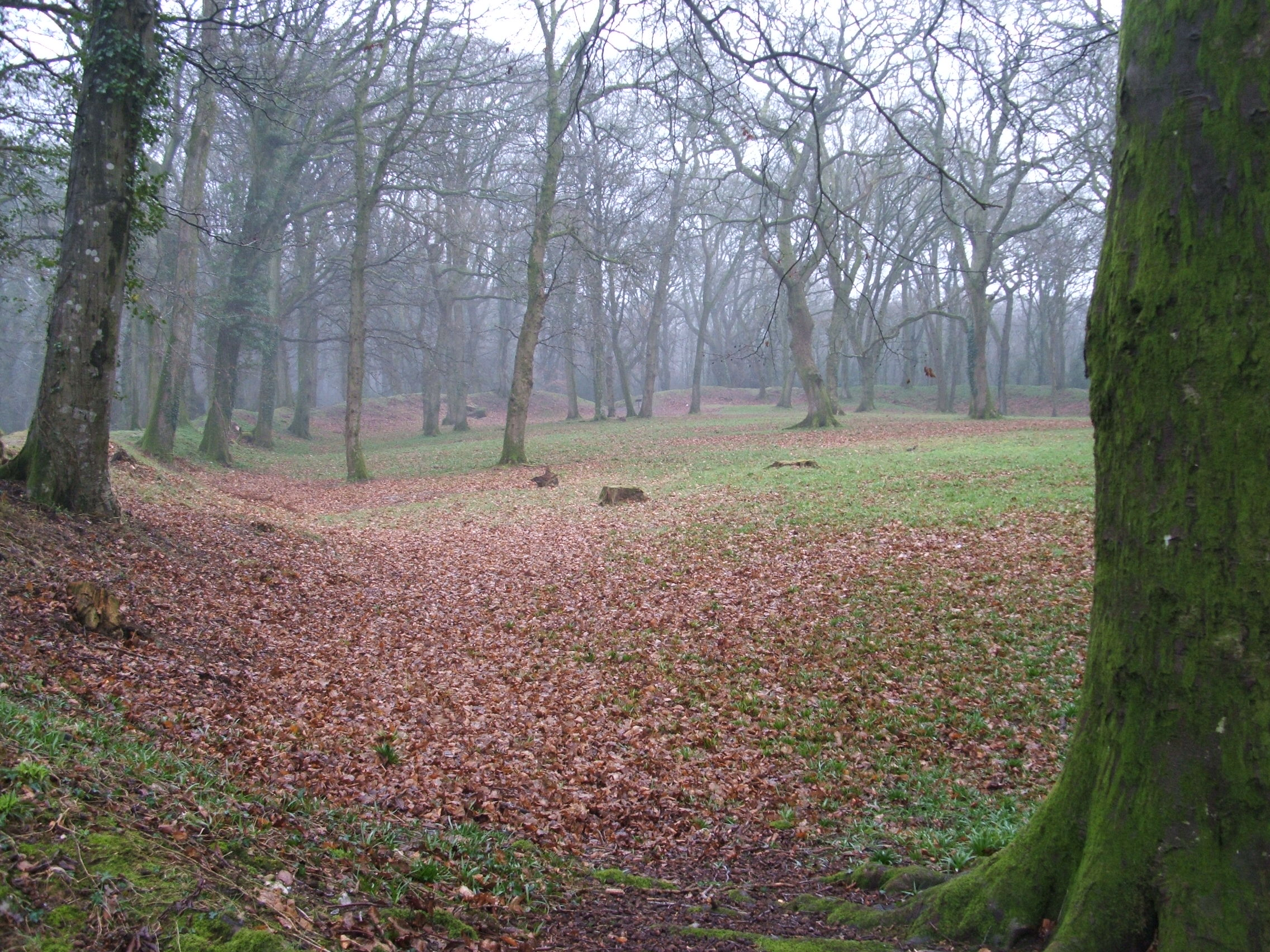 Looking at Blackbury Camp from the inside